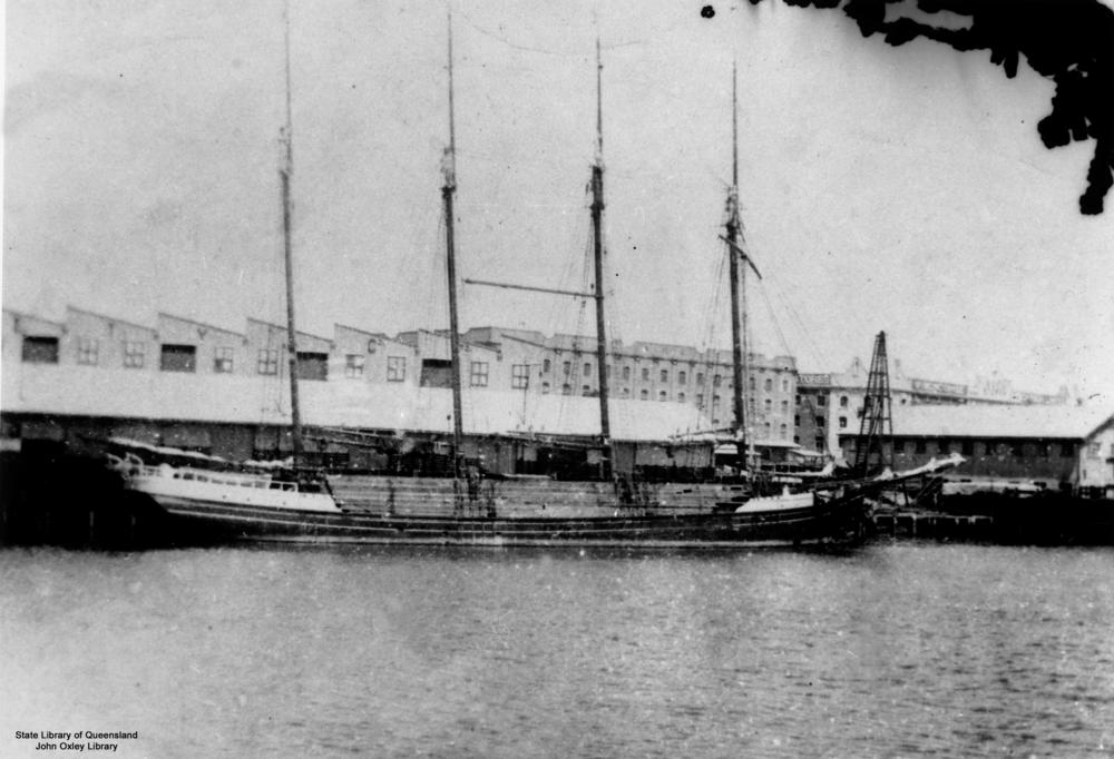 Ariel (ship)